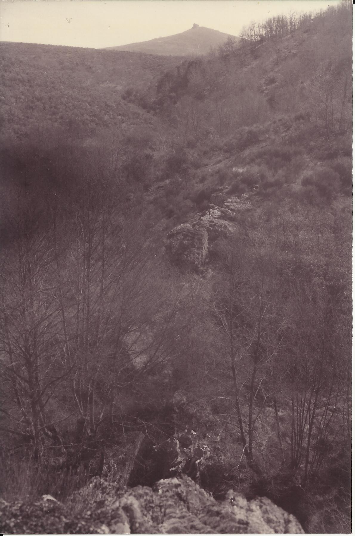 Up, on the background, Castle of Pinela as seen from Penacal stream. At the bounds of Mós, Bragança, Portugal.